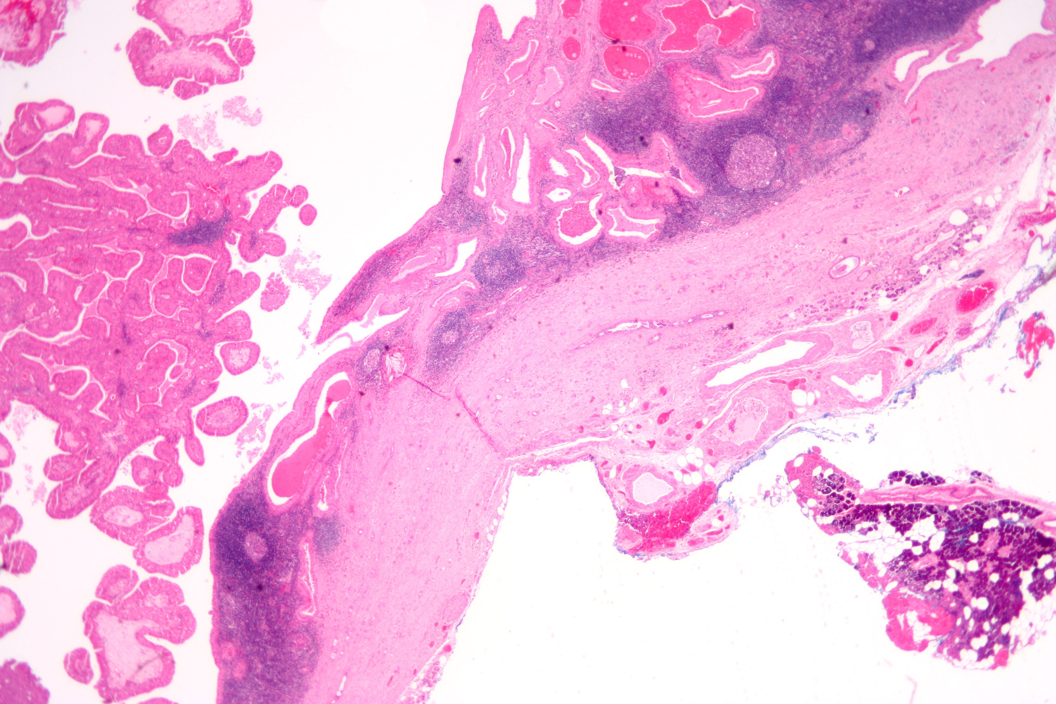 Low magnification micrograph of a papillary cystadenoma lymphomatosum (Warthin tumour), a benign tumour of salivary glands, that classically arises in the parotid gland. H&E stain. A fragment of normal parotid gland (with its typical acinar arrangement and hyperchromatic cytoplasm) is seen on the right aspect of the image. Features of papillary cystadenoma lymphomatosum seen in the image: Papillae (nipple-shaped structures), tubular masses of cells, with a two rows of pink (eosinophilic) epithelial cells (with cuboidal basal cells and columnar luminal cells) -- left aspect of image. Fibrous capsule (painted with blue ink to denote the resection margin) -- run diagonally across image (pink & homogenous). Cystic space (white - left/upper portion). Lymphoid stroma (blue). See also Image:papillary cystadenoma lymphomatosum2.jpg - intermediate magnification (shows capsule and papillae). Image:papillary cystadenoma lymphomatosum3.jpg - high magnification (shows a papillae with their characteristic bilayered epithelium). FNA specimen: Image:Papillary cystadenoma lymphomatosum cytology intermed.jpg Image:Papillary cystadenoma lymphomatosum cytology high.jpg